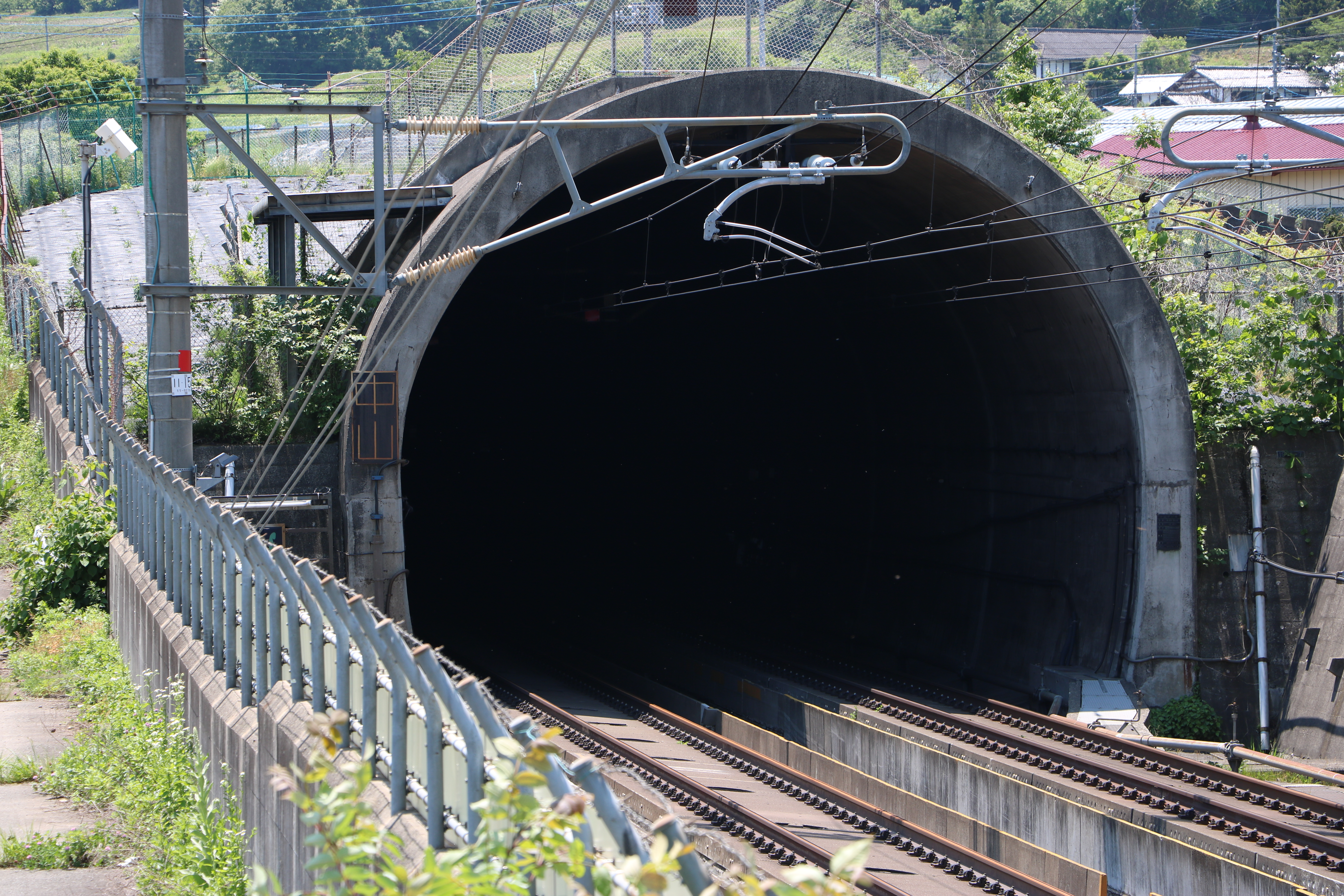 Nakayama tunnel north entrance of the Joetsu Shinkansen